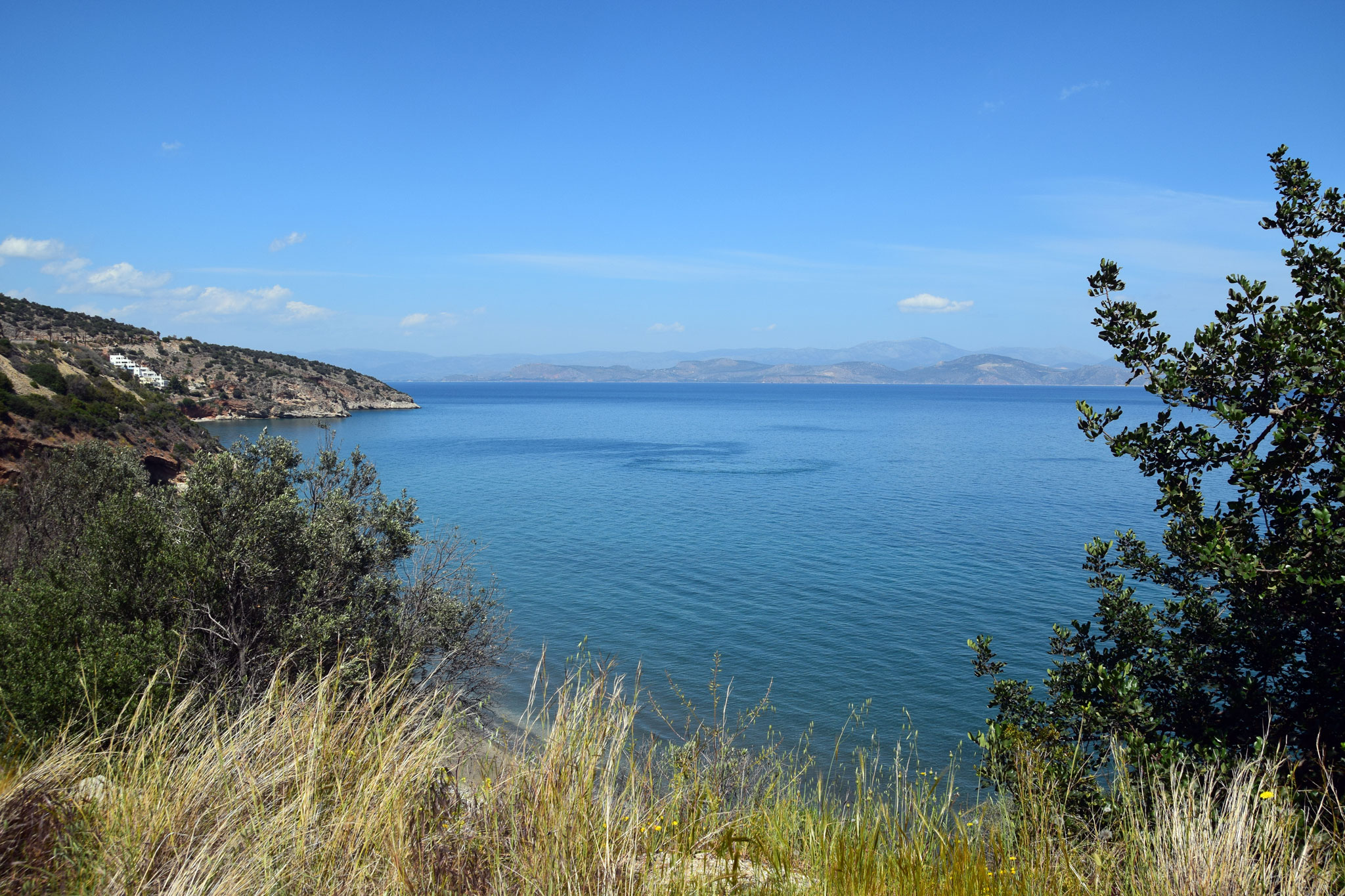 Brackish water source, called by locals "Lileiko Mati", seen here as a ring while rising through the sea and mixing with its salty water. A karst phenomenon located near Xiropigado village in Arcadia, Greece. See also "Unterseeische Quelle" (submarine spring) in the German wikipedia.